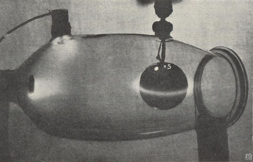 A bottle of vacuum with terrella for simulation of northern lights, early model. From the book, The Norwegian Aurora Polaris Expedition 1902-1903, Volume 1: On the Cause of Magnetic Storms and The Origin of Terrestrial Magnetism, Section 2. Chapter VI: p.80